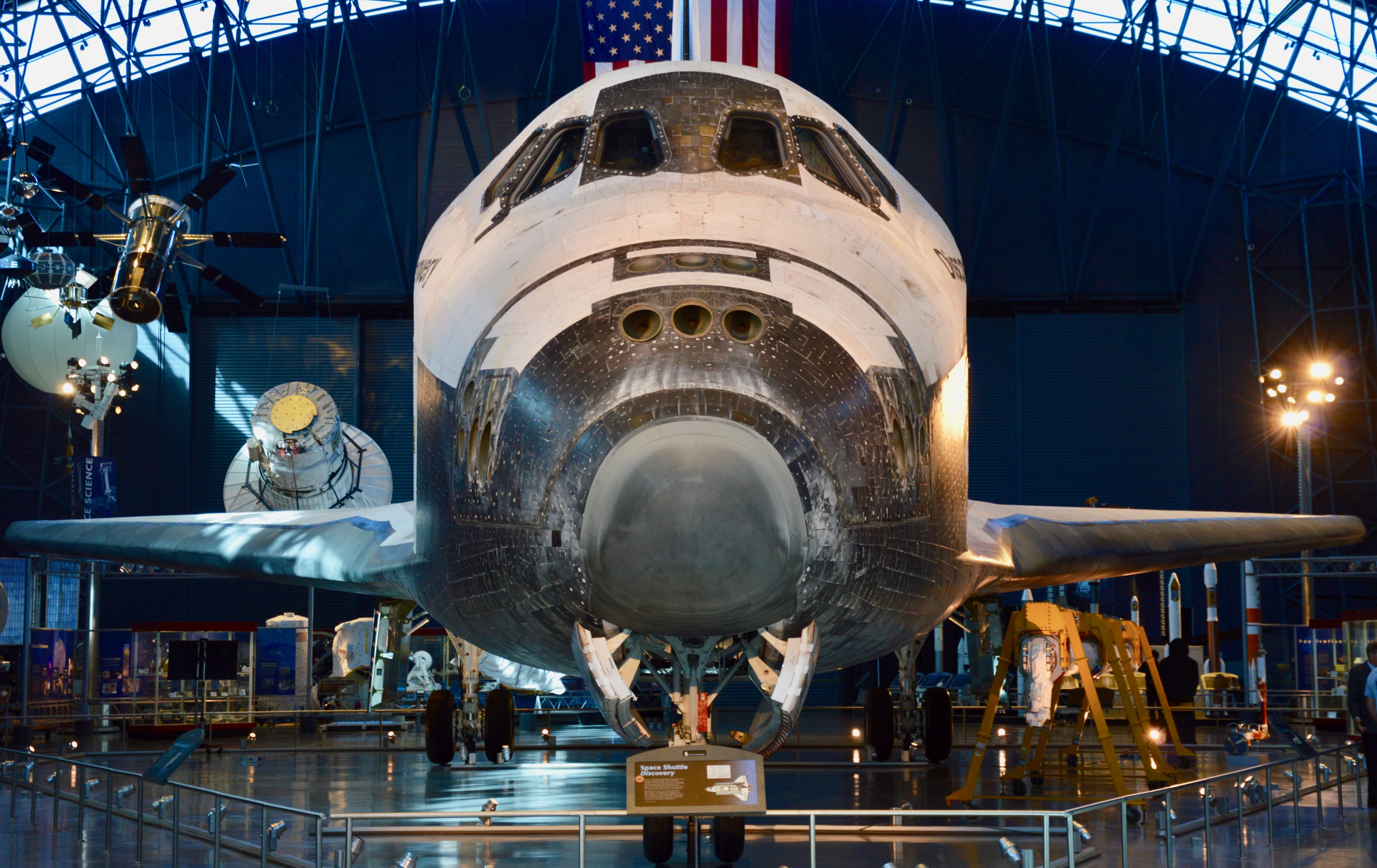 Discovery Space Shuttle, Steven F. Udvar-Hazy Center, Chantilly, Virginia